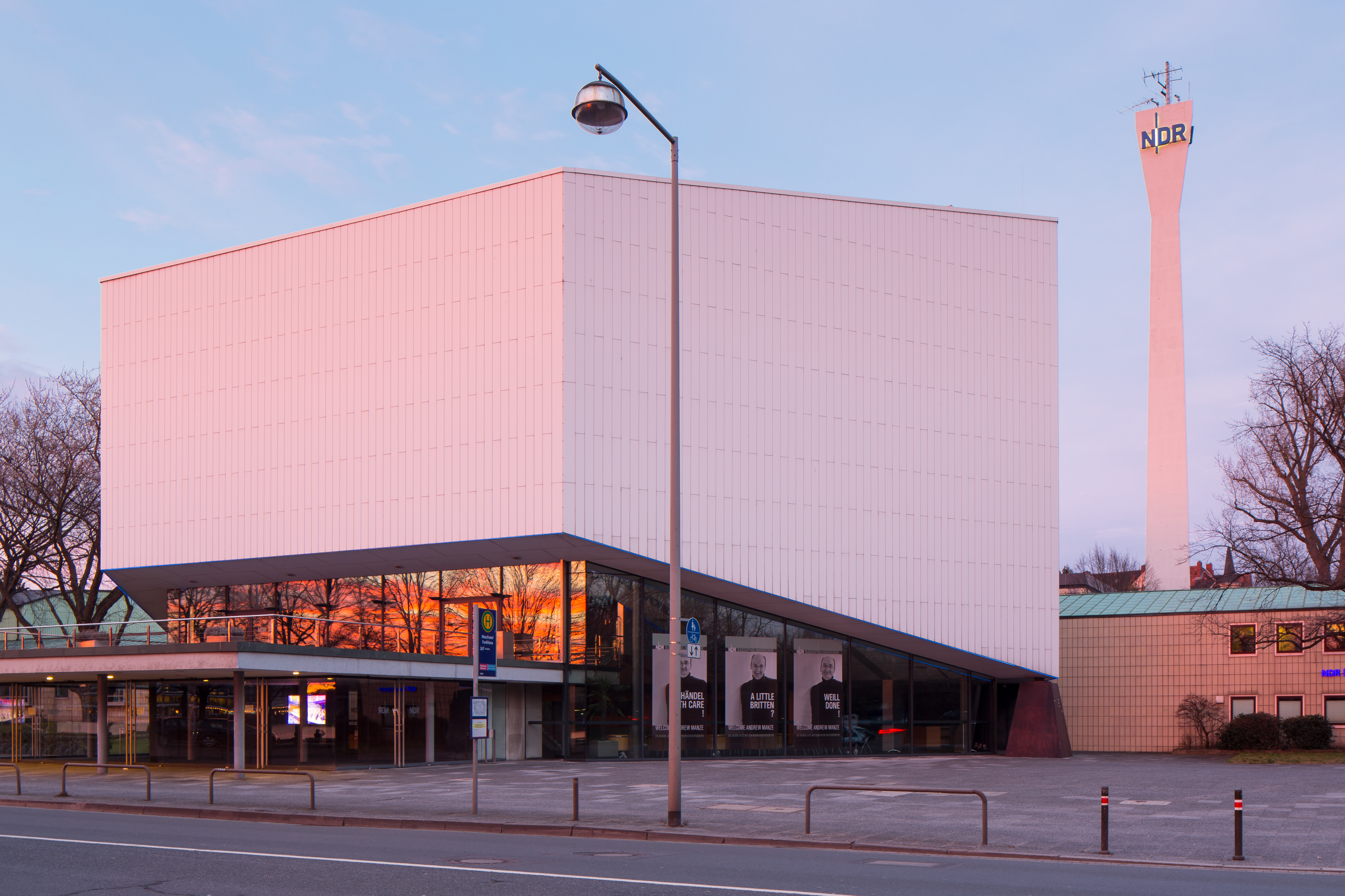 Broadcast station of North German Broadcasting (NDR) located at Rudolf-von-Bennigsen-Ufer street in Suedstadt district of Hannover, Germany.